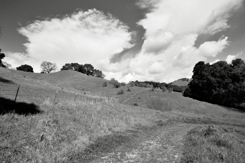 Pathway in Briones Park California